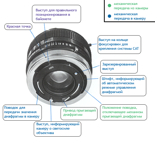 detailed FD 50mm f/1.4, mount construction